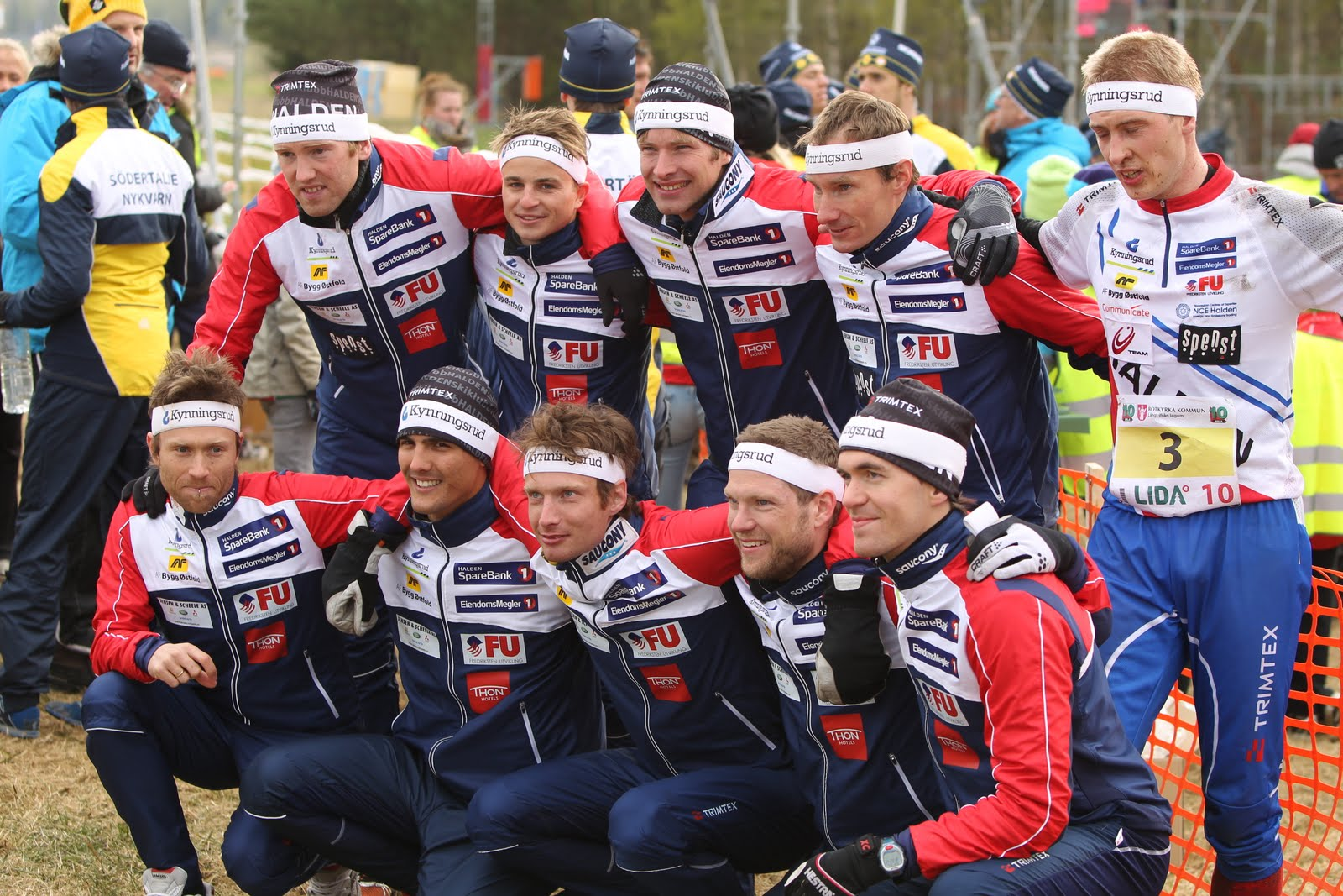 Tiomila 2011. Halden SK